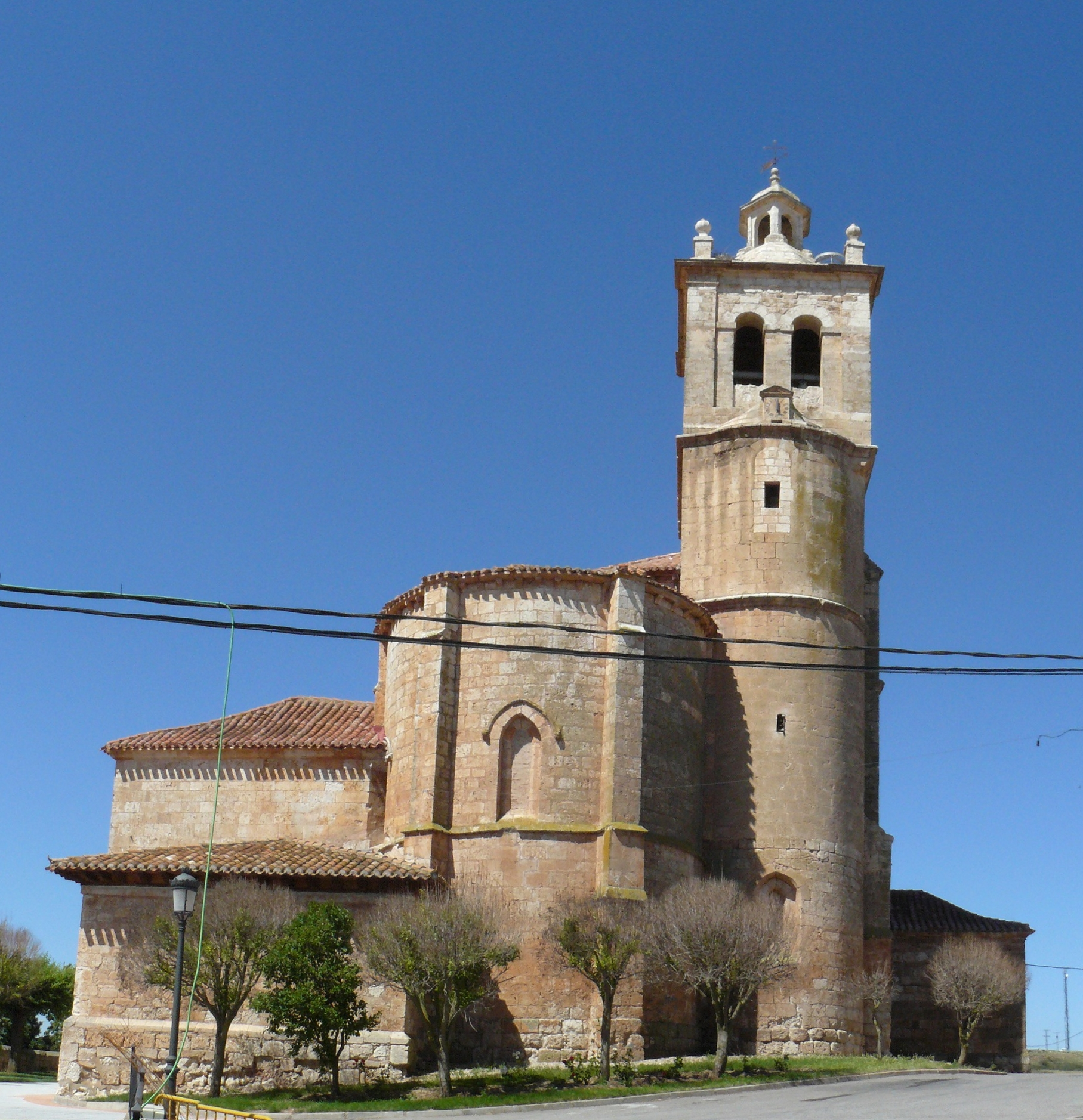 Church at Tordómar, Burgos, Spain